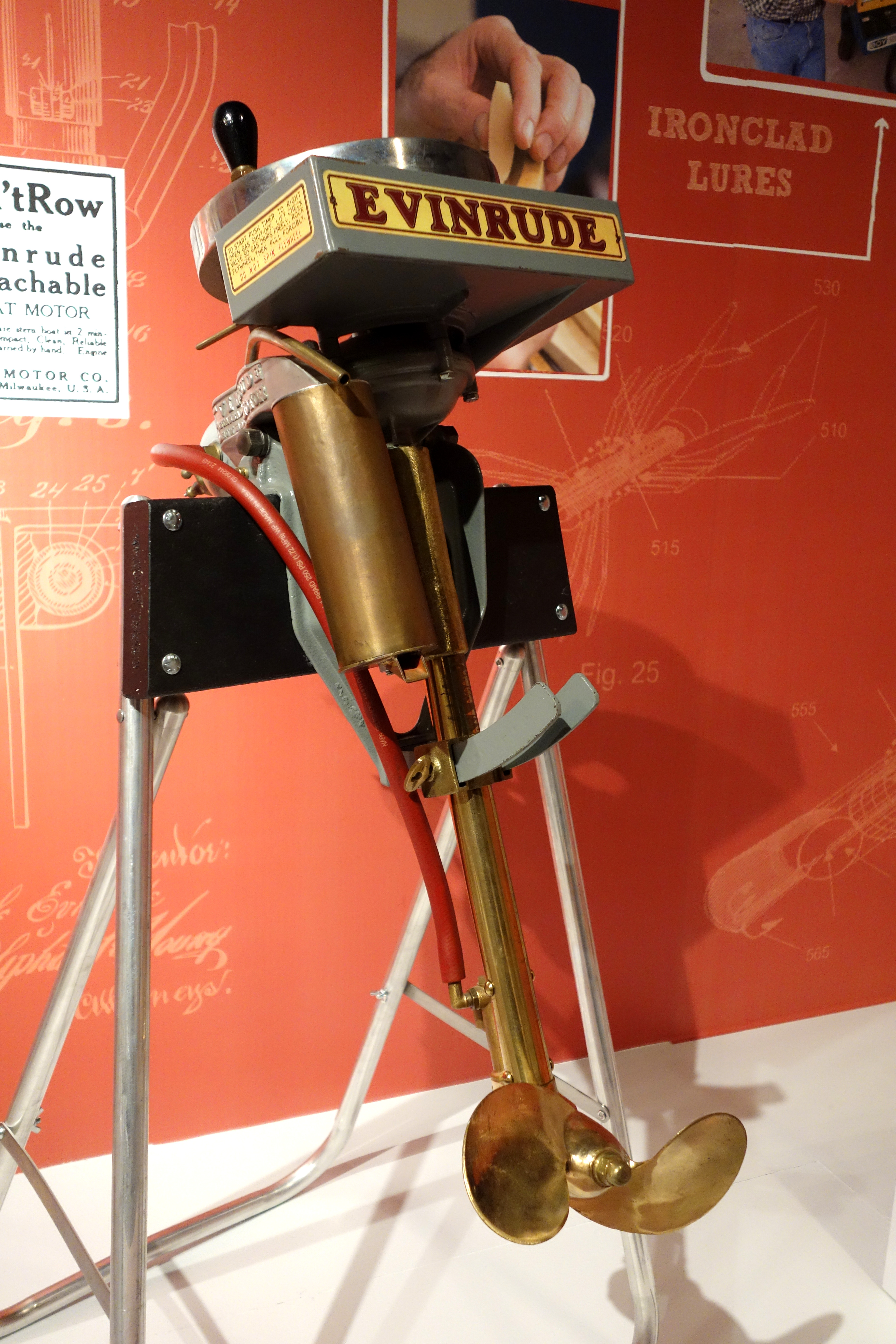 Exhibit in the Wisconsin Historical Museum, Madison, Wisconsin, USA. This item is old enough so that it is in the public domain.